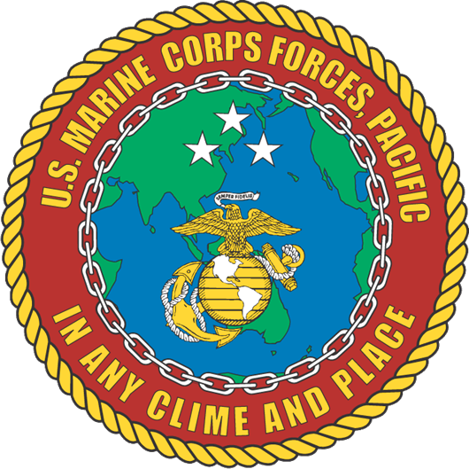 U.S. Marine Corps Forces, Pacific insignia.